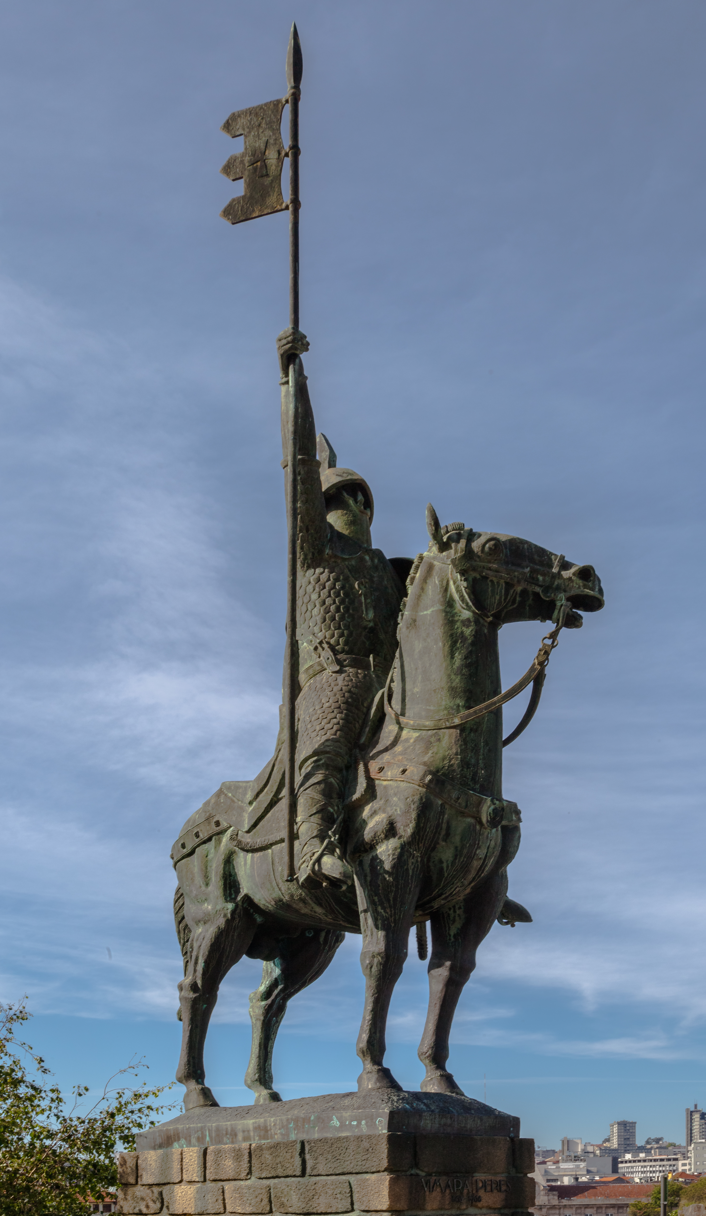 Statue of Vimara Peres, Porto, Portugal